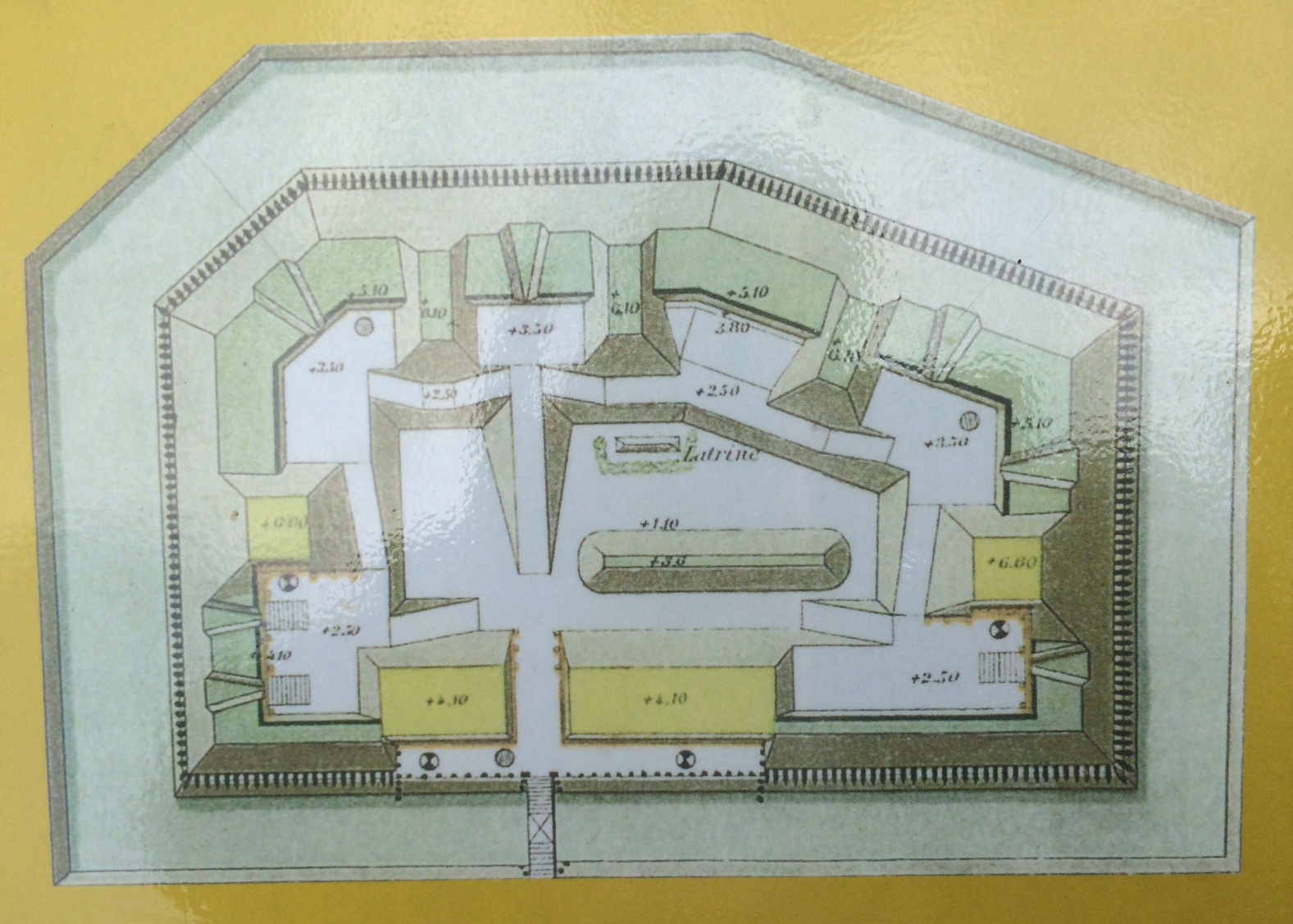 Sketch of "Batterij aan de Koedijk", one of the five batteries/forts of the 'Offensief voor Naarden'. Seen at public display in Bussum (Netherlands)